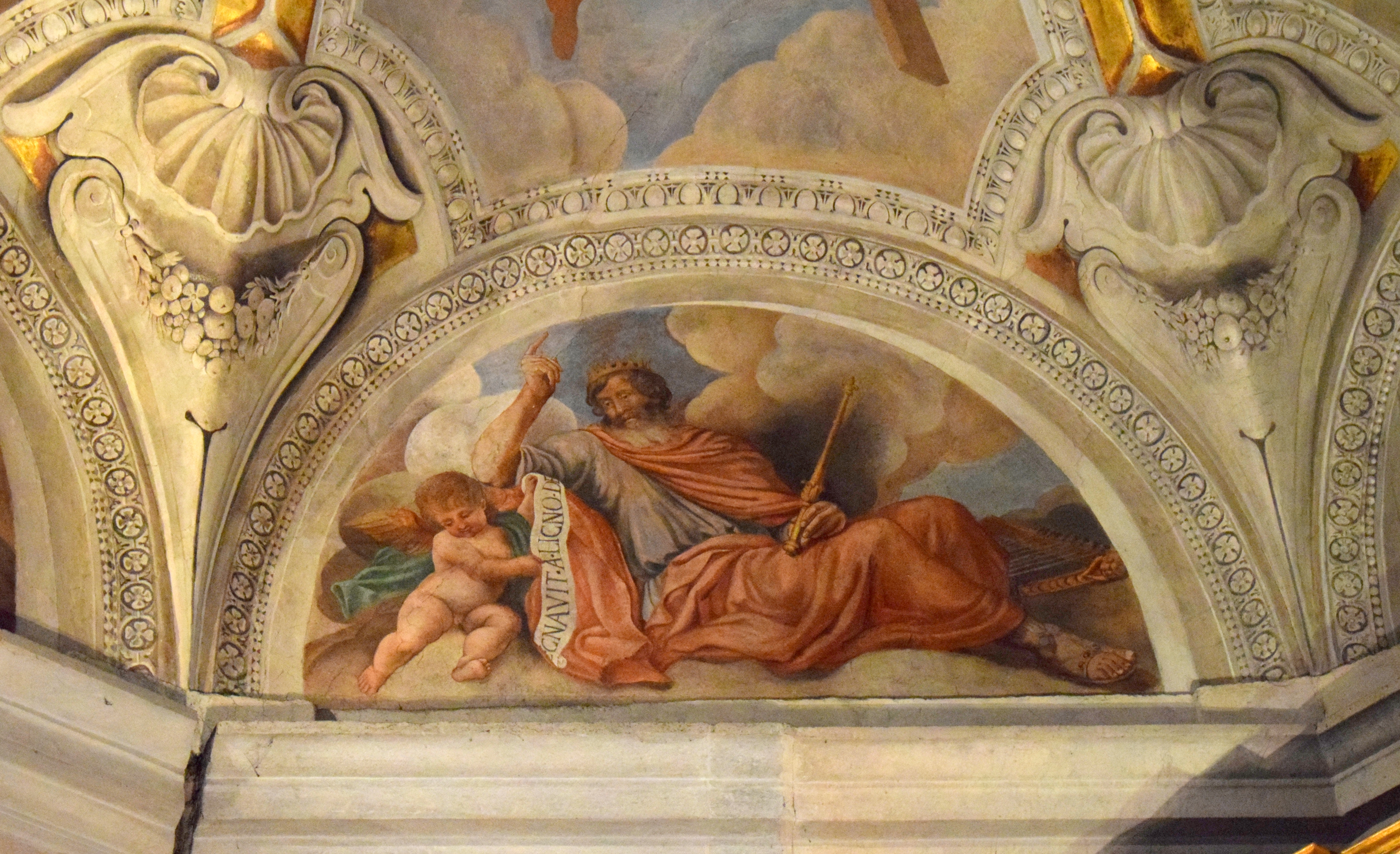 King David, lunette painting in the Cybo-Soderini Chapel in Santa Maria del Popolo by Pieter van Lint, c. 1636. Inscription on the scroll: "[R]egnavit a ligno De[us]" which means: "God has reigned from the wood".